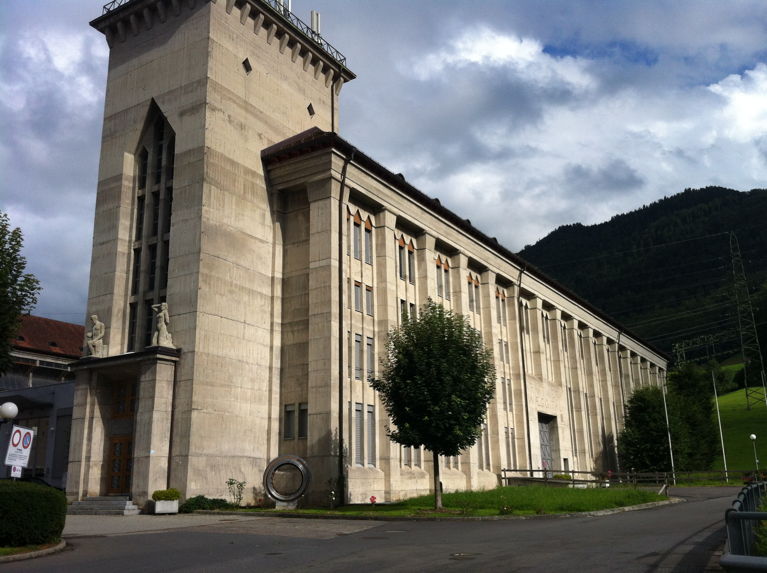 kraftwerk